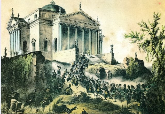 Battle of Vicenza (1848-06-10)